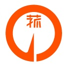 Komono Mie chapter